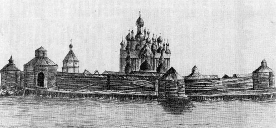 Kola stockade, end 18 century drawing.